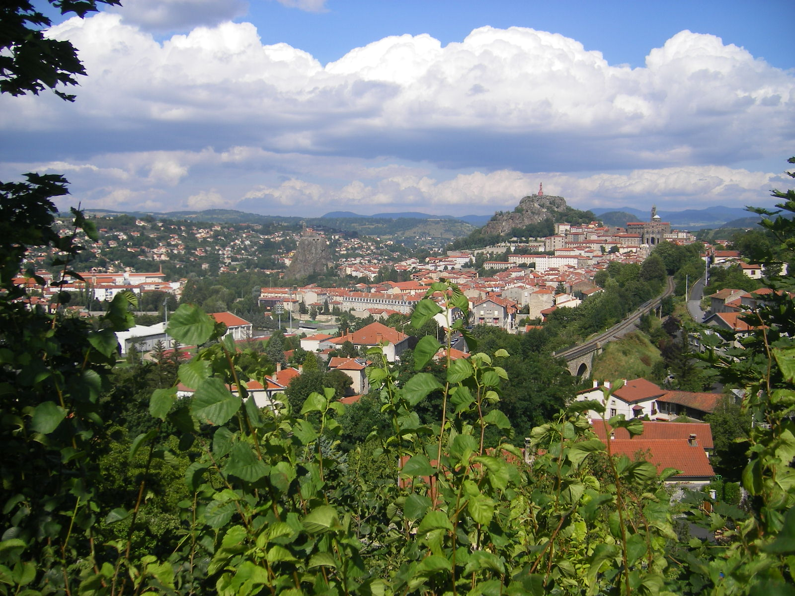 Le Puy as viewed from west.